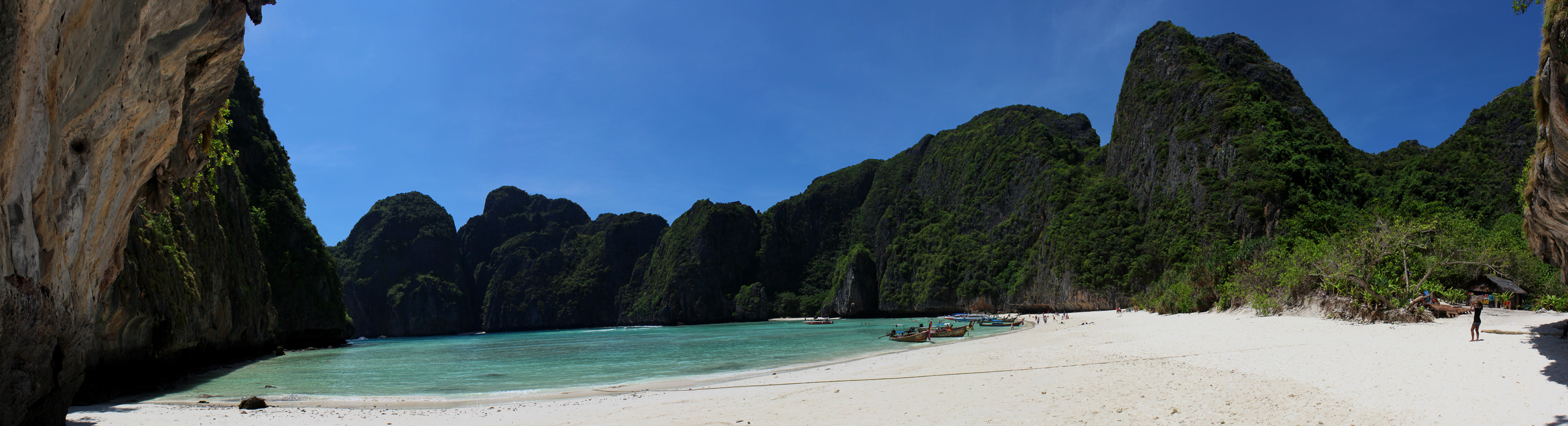 Panorama view of Maya Bay (Ko Phi Phi Lee)